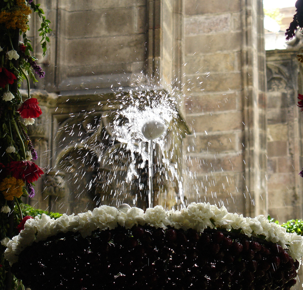 Dancing egg.